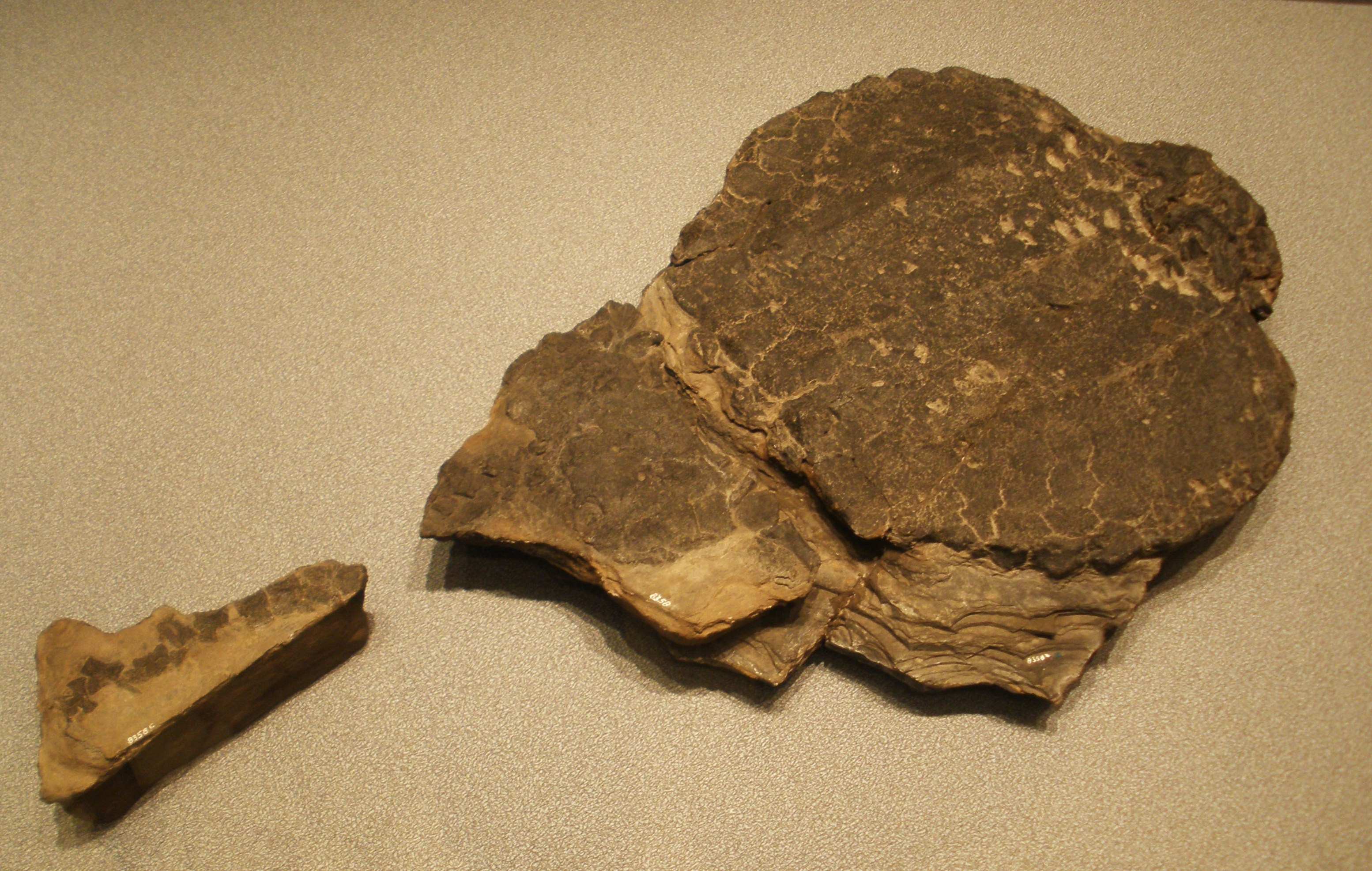 Fossil of Psephoderma alpinum, an extinct reptile